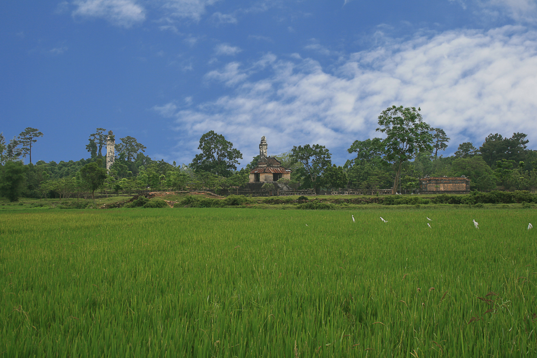 Tomb of Thieu Tri